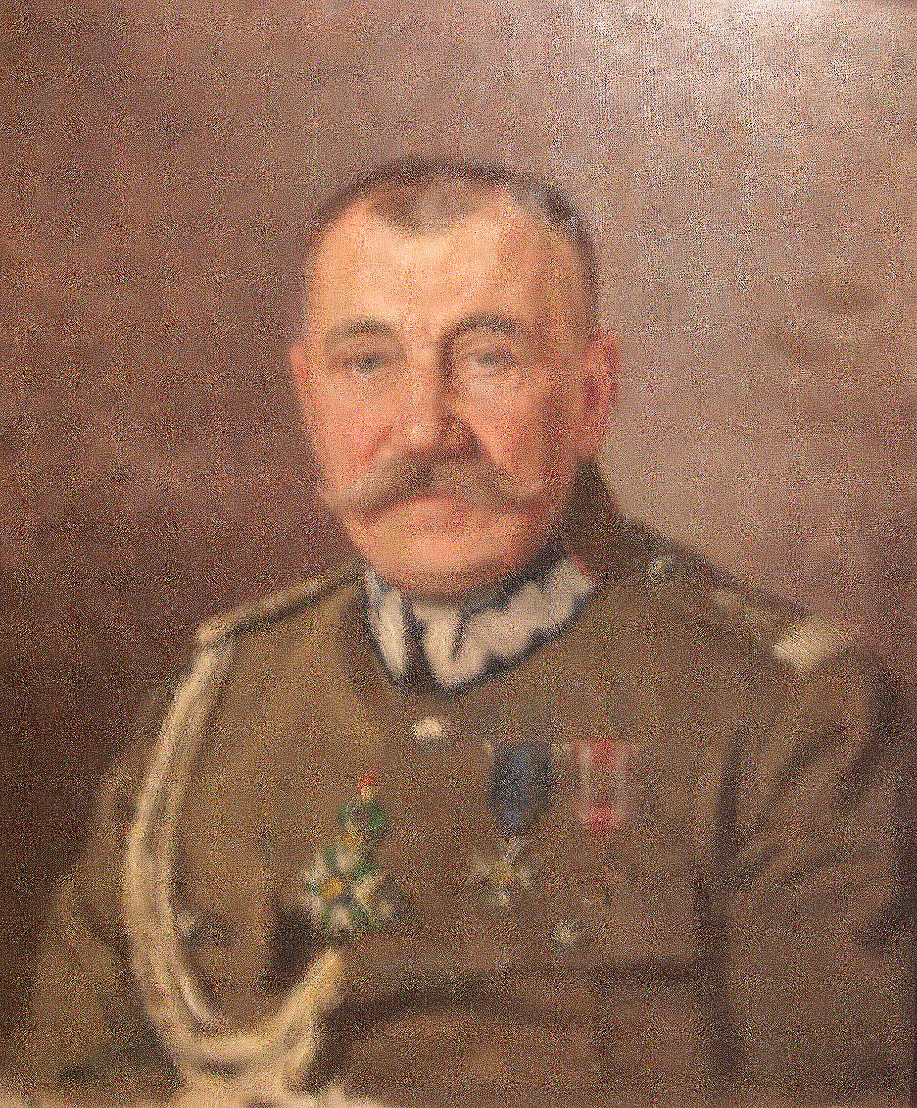 Jan Rządkowski, a Polish general, on a portrait by an unknown author